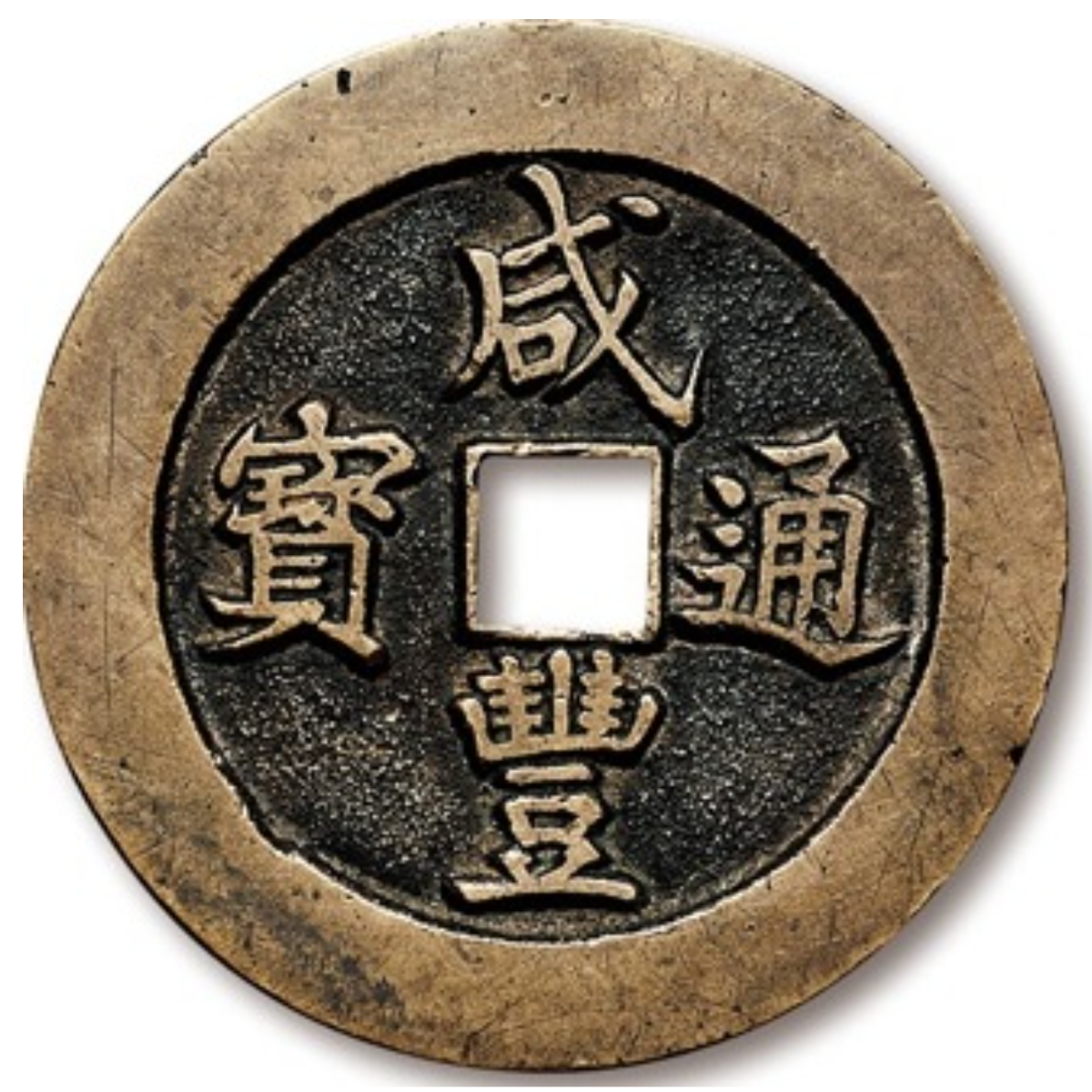 A copper (brass) cash coin from the Manchu Qing Dynasty.